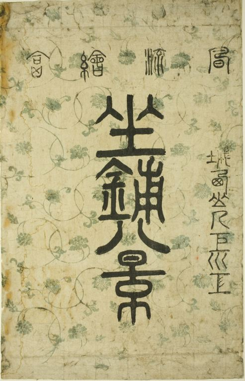 Wrapper to Japasnese artist Suzuki Harunobu's ukiyo-e print series Zashiki Hakkei